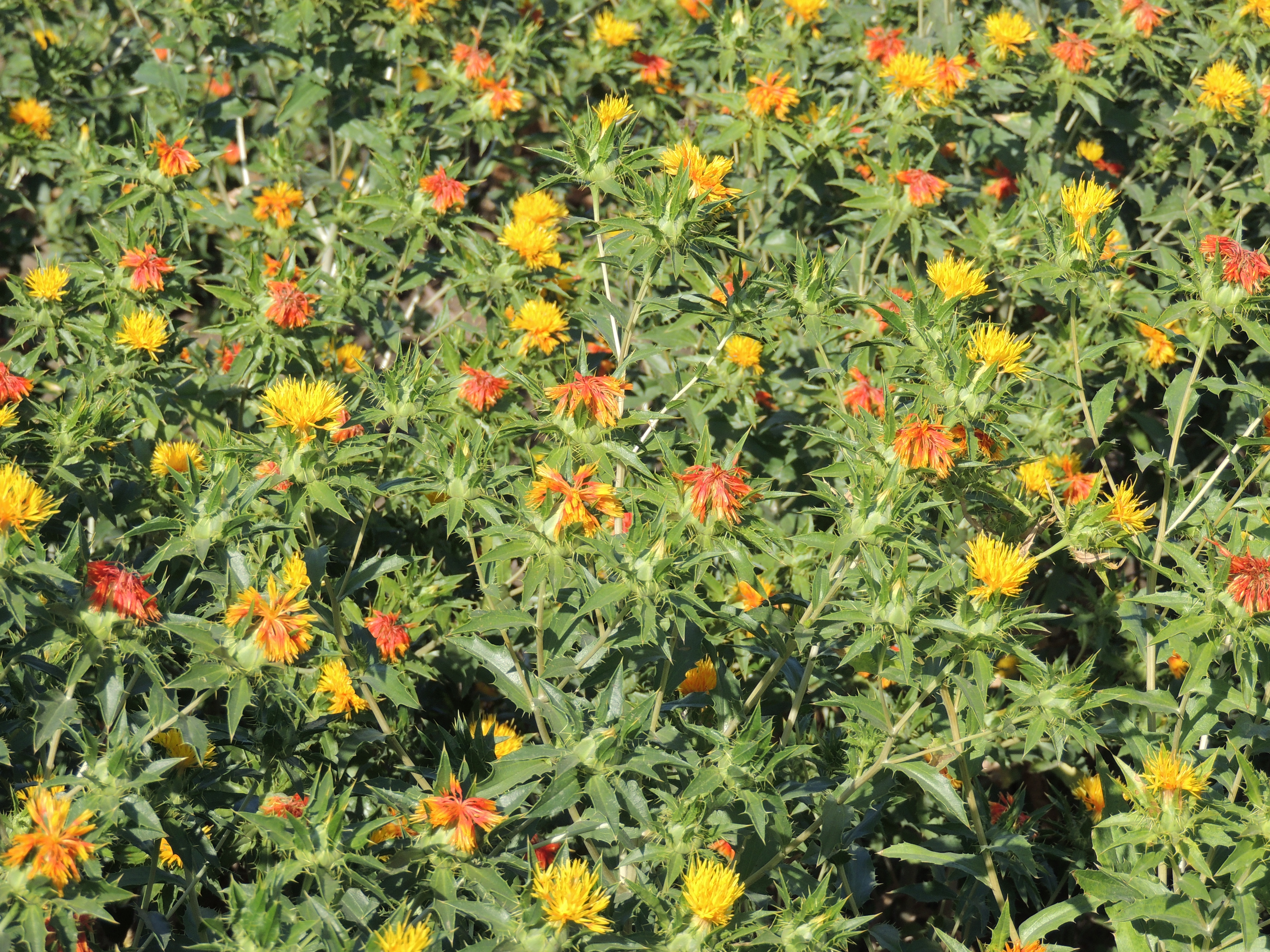 Documented during Maharashtra Gene Bank project, MGB Theme - Crop varietal diversity, Crop Name - Safflower, Botanical Name - Carthamus tinctorius, Family - Asteraceae, Place - Sagroli, Taluka - Biloli, District - Nanded, State - Maharashtra, Country - India, Photo credit - MGB CEE Team